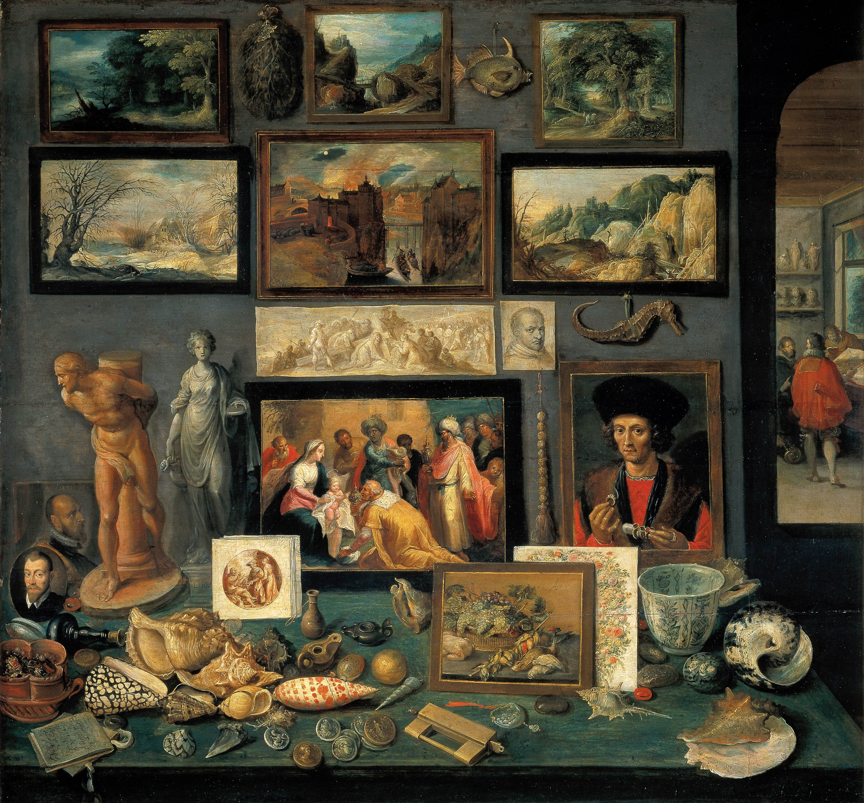 The person depicted is Abraham Ortelius.